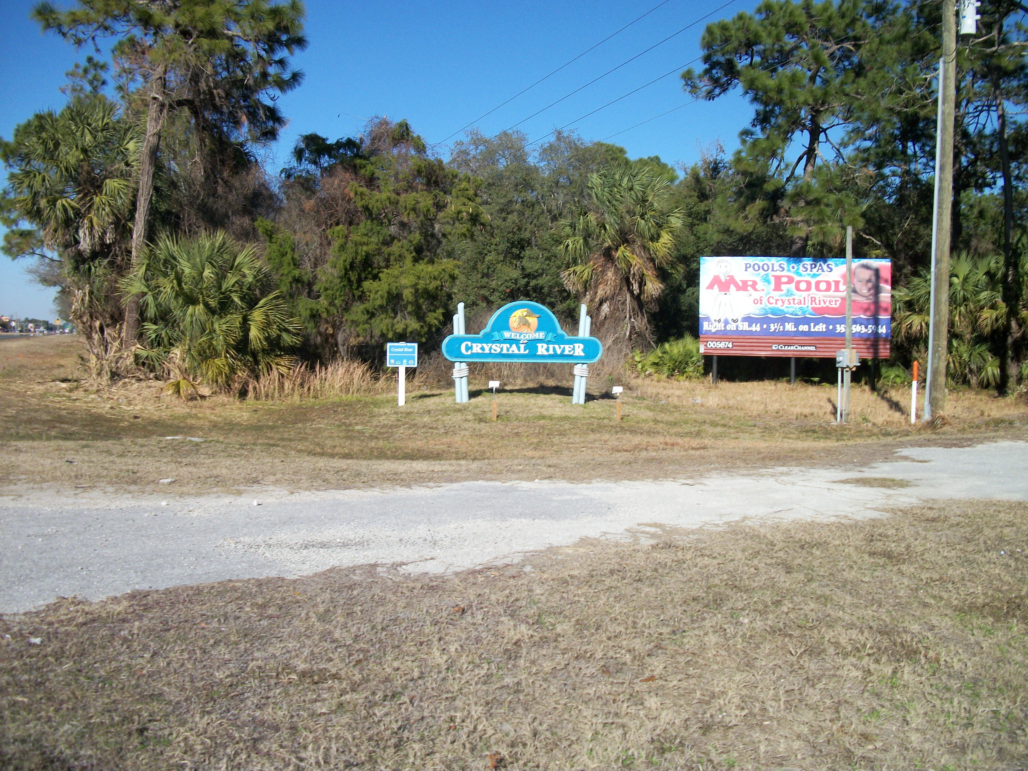 Signs welcoming northbound drivers on US 19-98 to the City of Crystal River, Florida. There's also a billboard for a local swimming pool business there, but that's not what this picture is for.